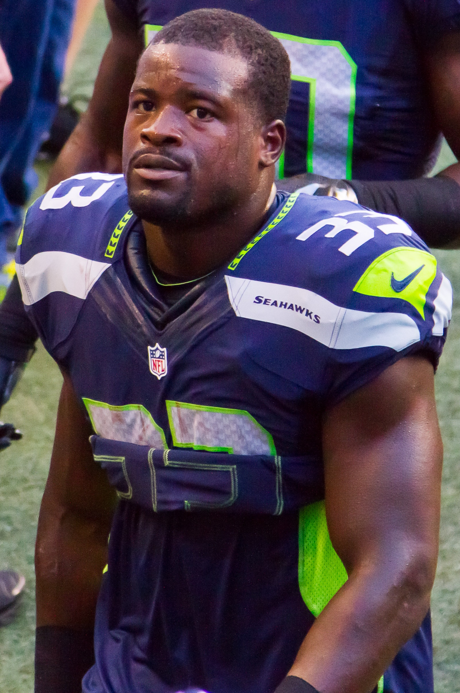 2015 preseason